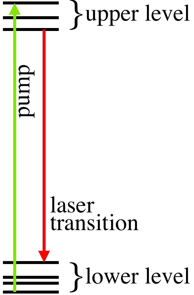 Scheme of an idealized laser with two systems of sublevels Domitori 11:49, 4 April 2007 (UTC)